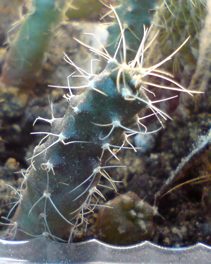 Echinocereus knippelianus